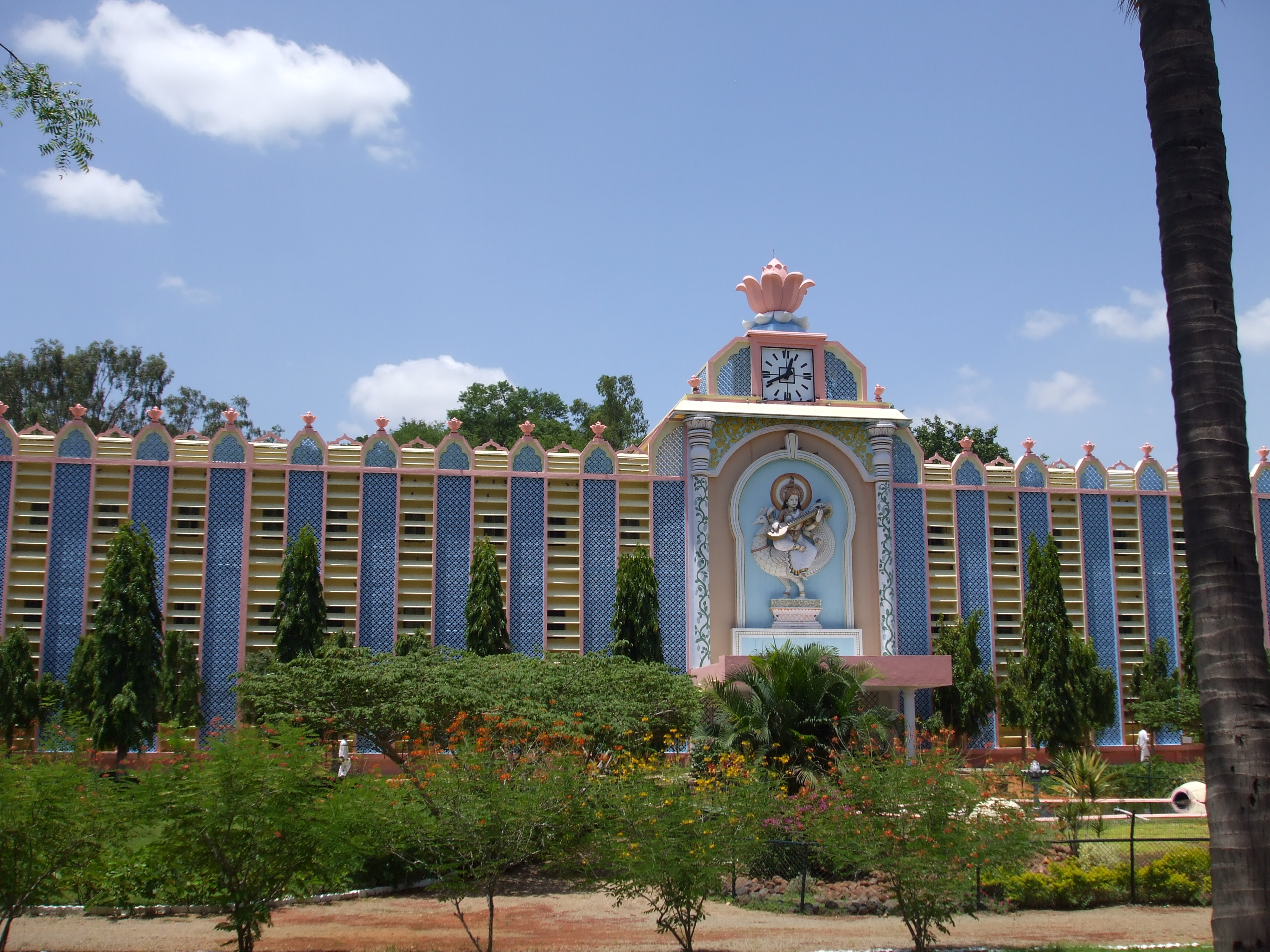 Sathya Sai Baba University, Puttaparthi A.P., India